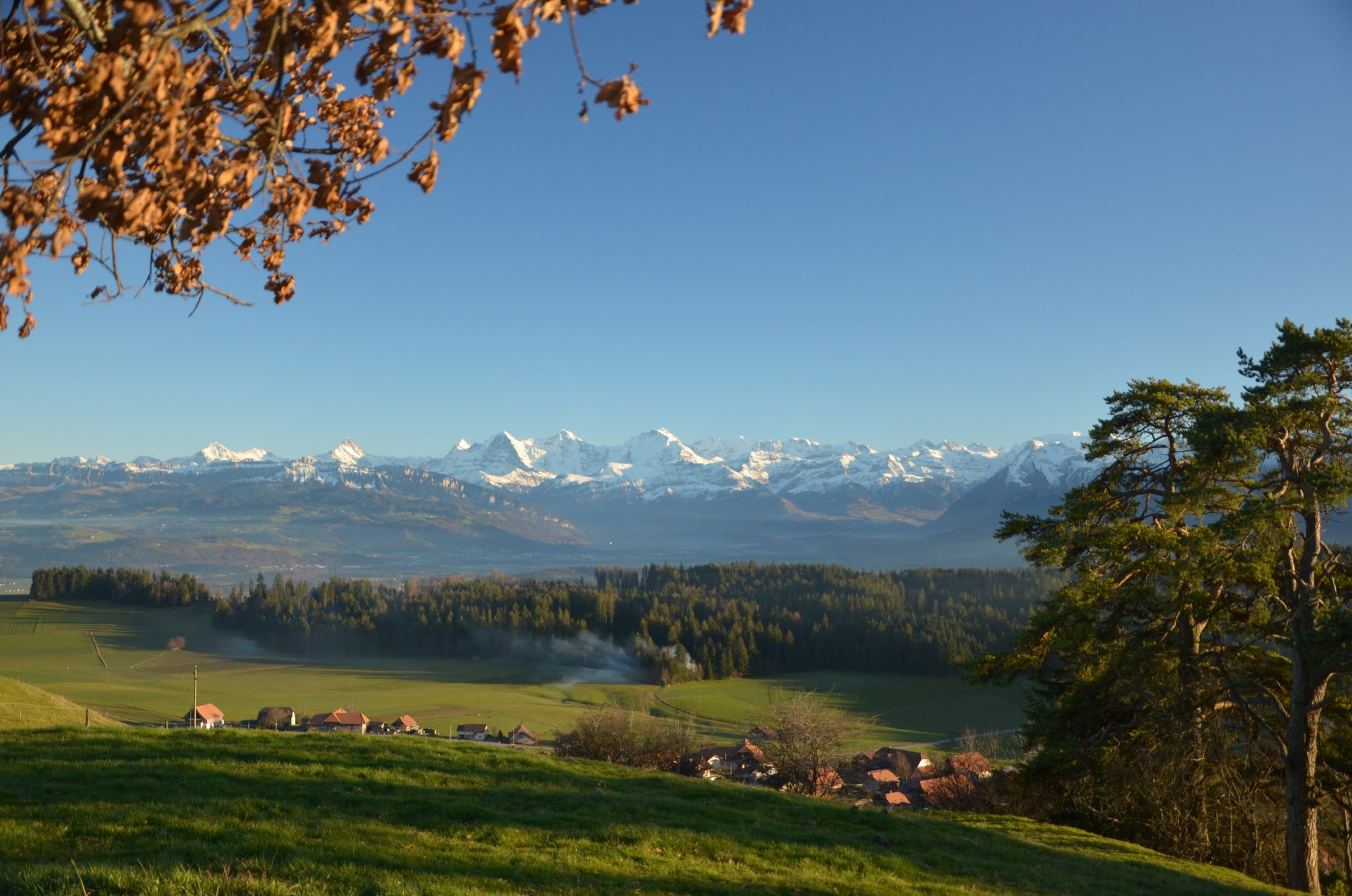 Bernese Alps view from Buetschelegg